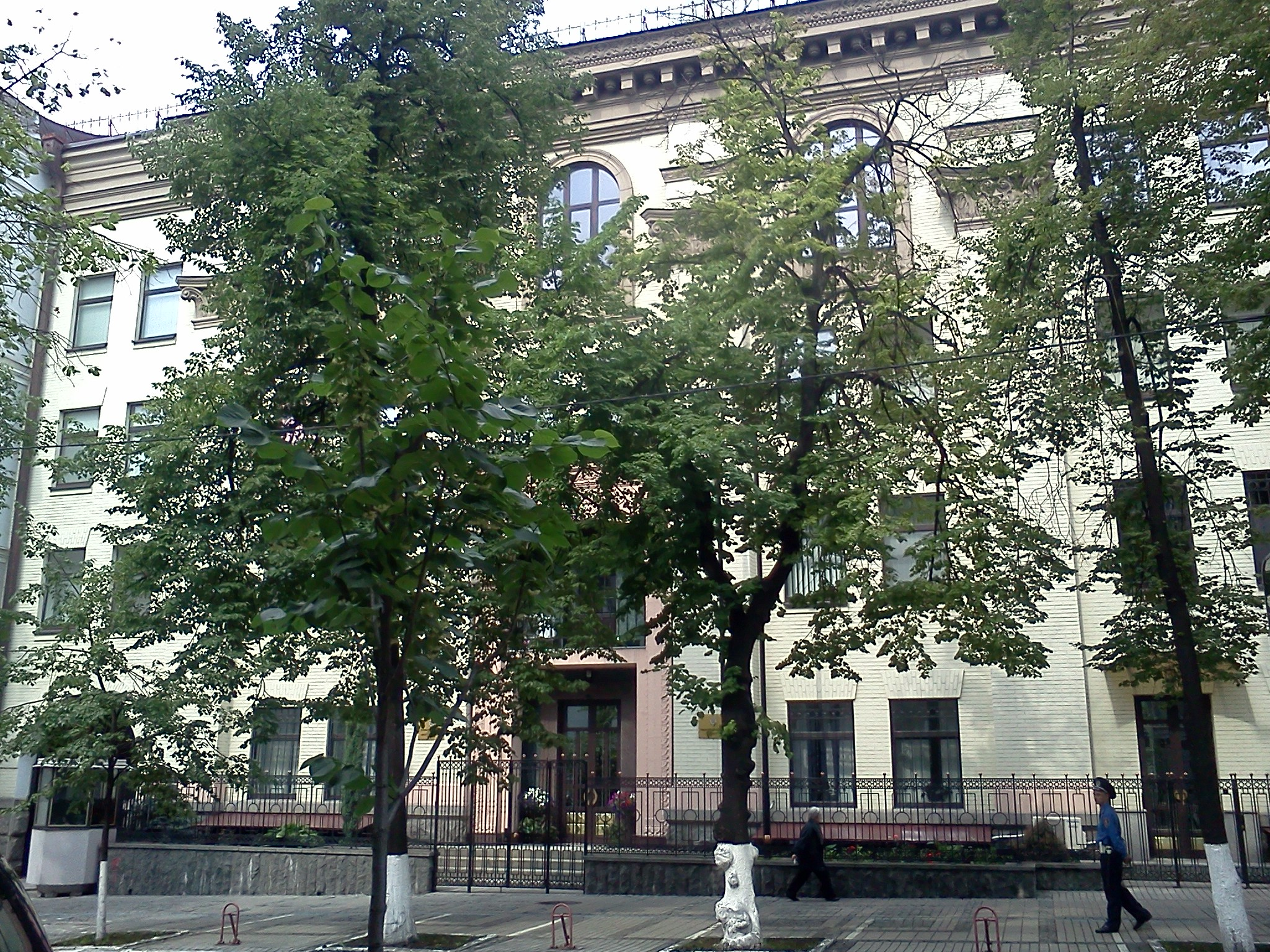 Embassy of Turkmenistan in Kyiv